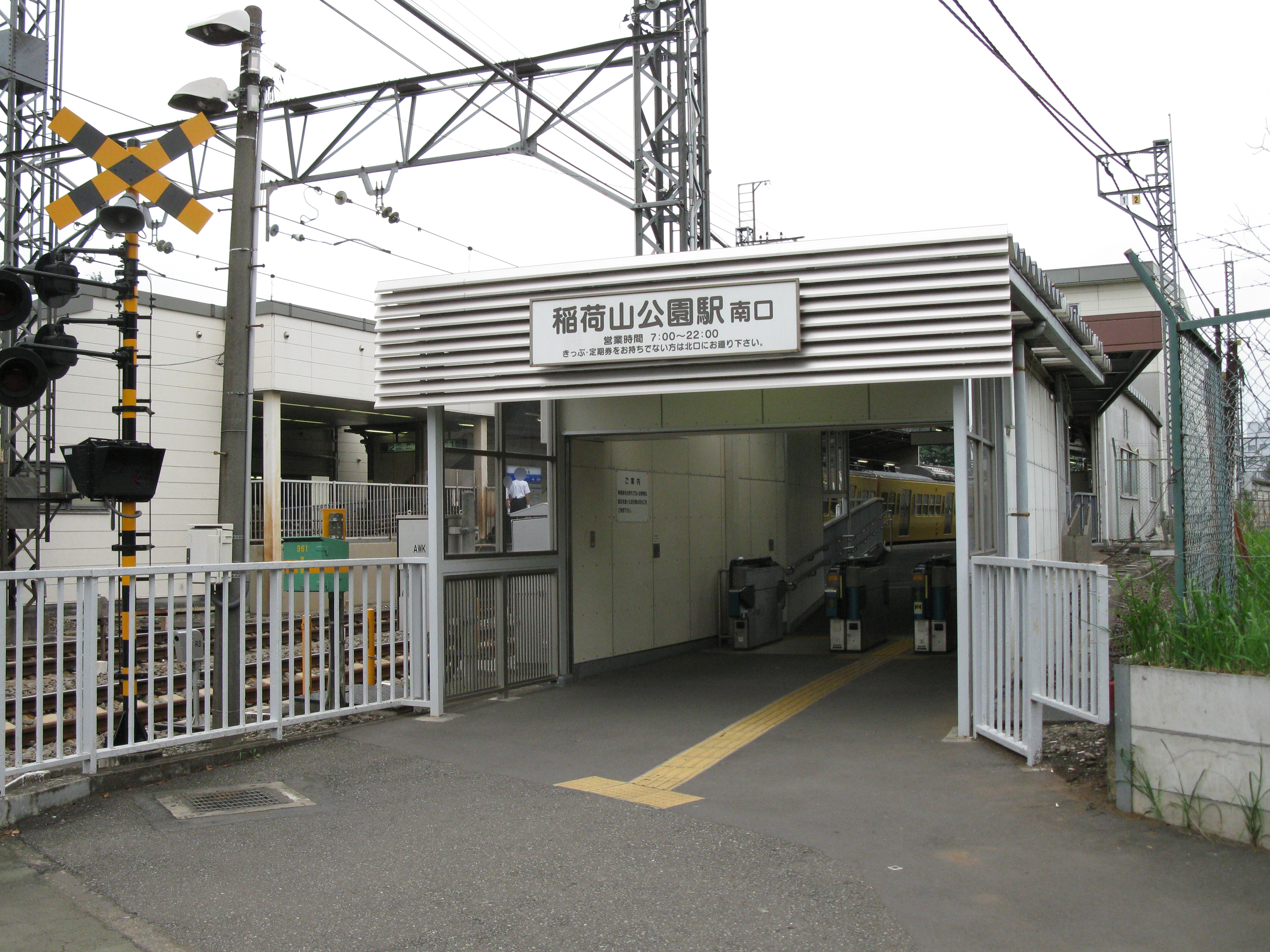 South entrance of Inariyama-kōen Station on the Seibu Ikebukuro Line